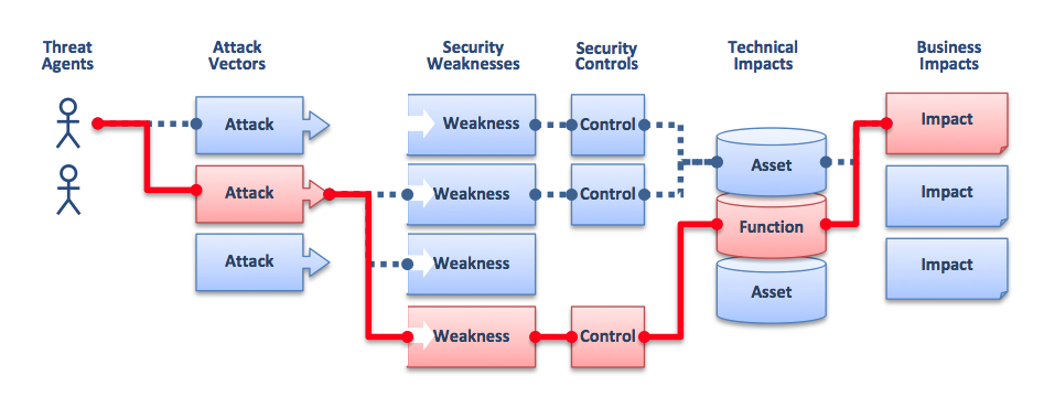 diagram showing threat agents, attack vectors, weakness, controls, IT asset and business impact.